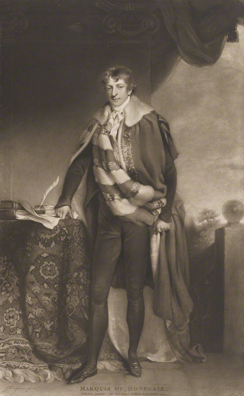 George Augustus Chichester, 2nd Marquess of Donegall by and published by Charles Turner, after John James Masquerier, mezzotint, published 1 December 1800